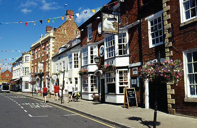 Shipston-on-Stour high street in Warwickshire.